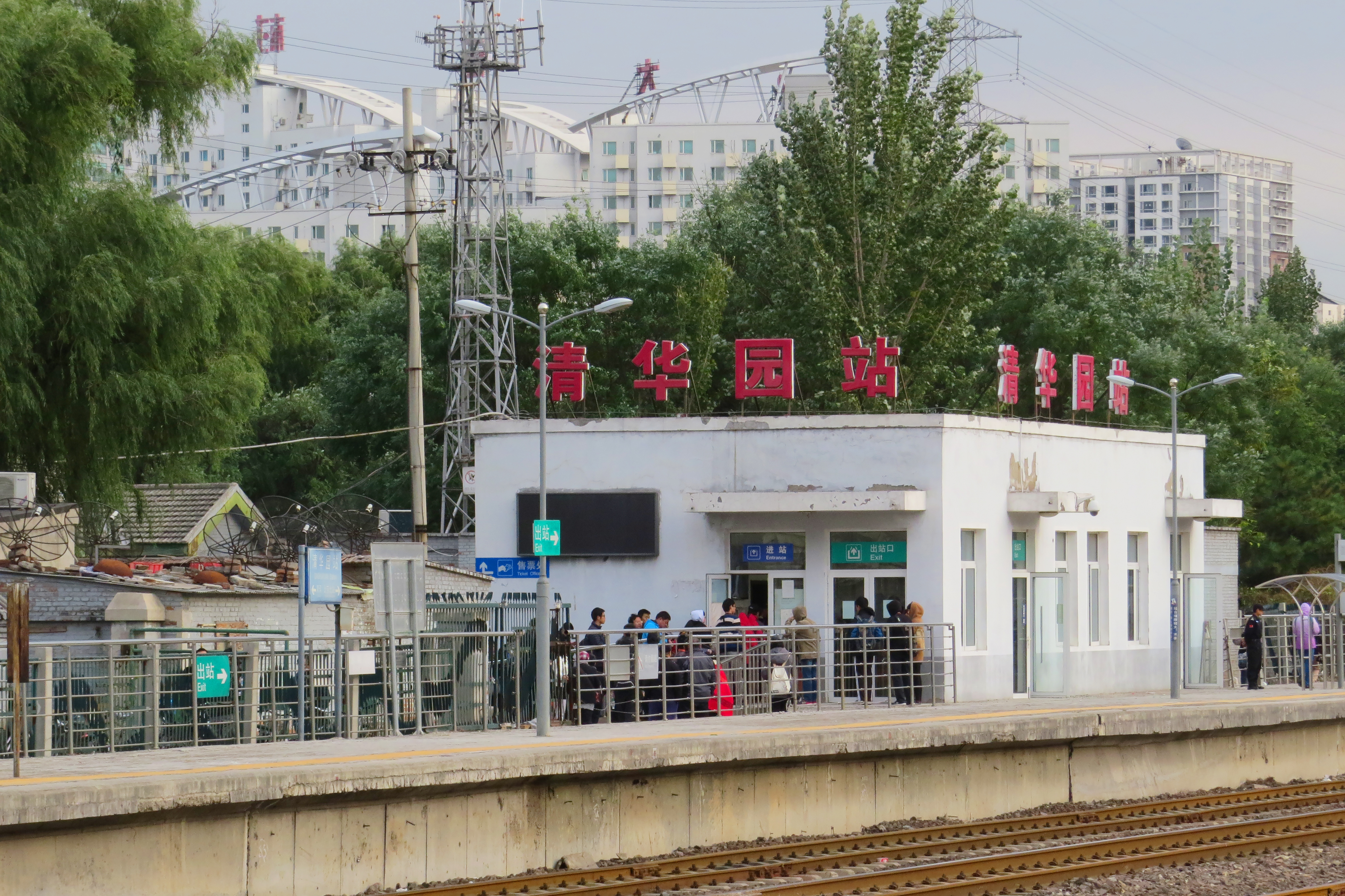 【伝説から神話へ -QINGHUAYUAN…AT LAST-】The ticketing devices of this station was transferred to Changpingbei or somewhere on 28 October 2016.